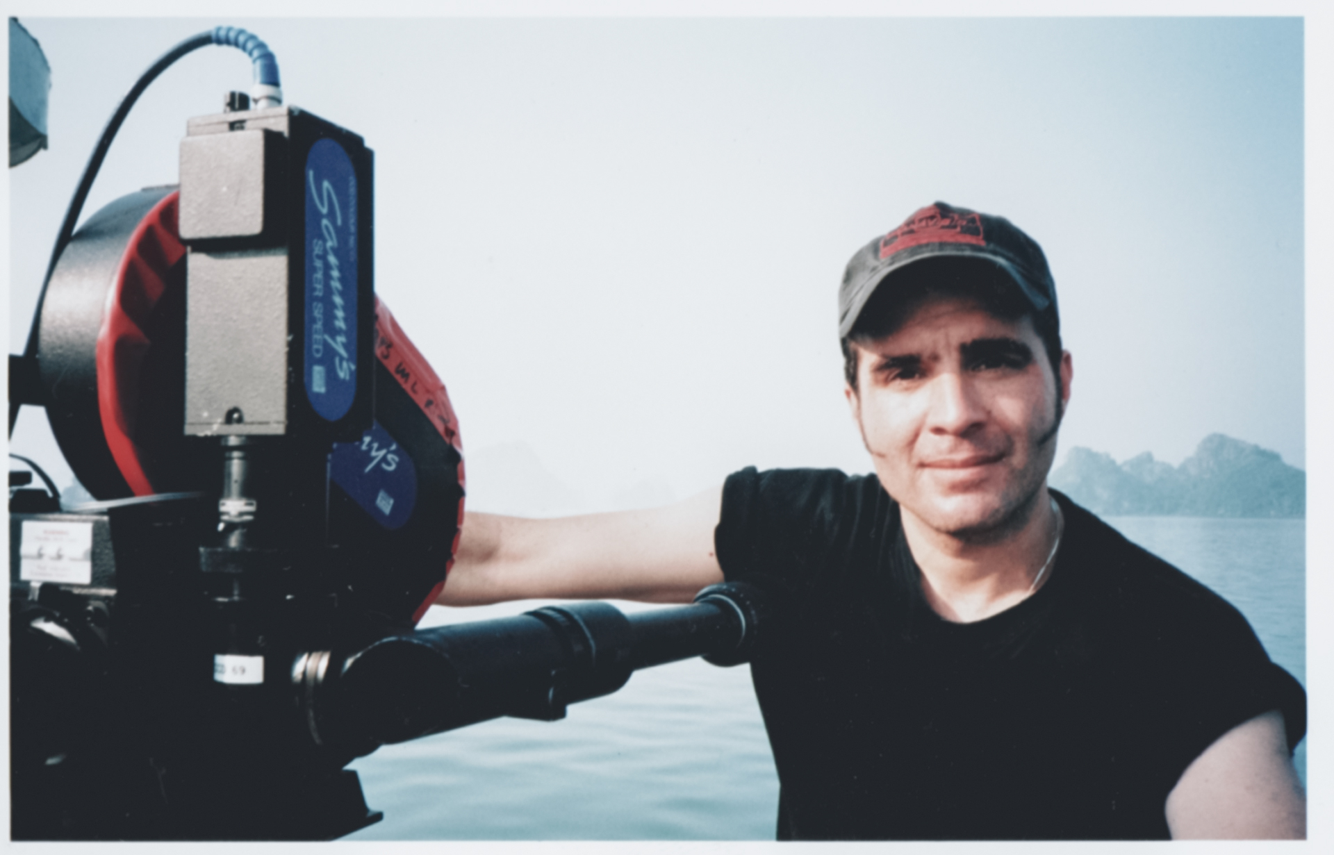 Sion Michel, ACS filming at with Arri III 35mm motion picture camera at Ha Long Bay Vietnam.